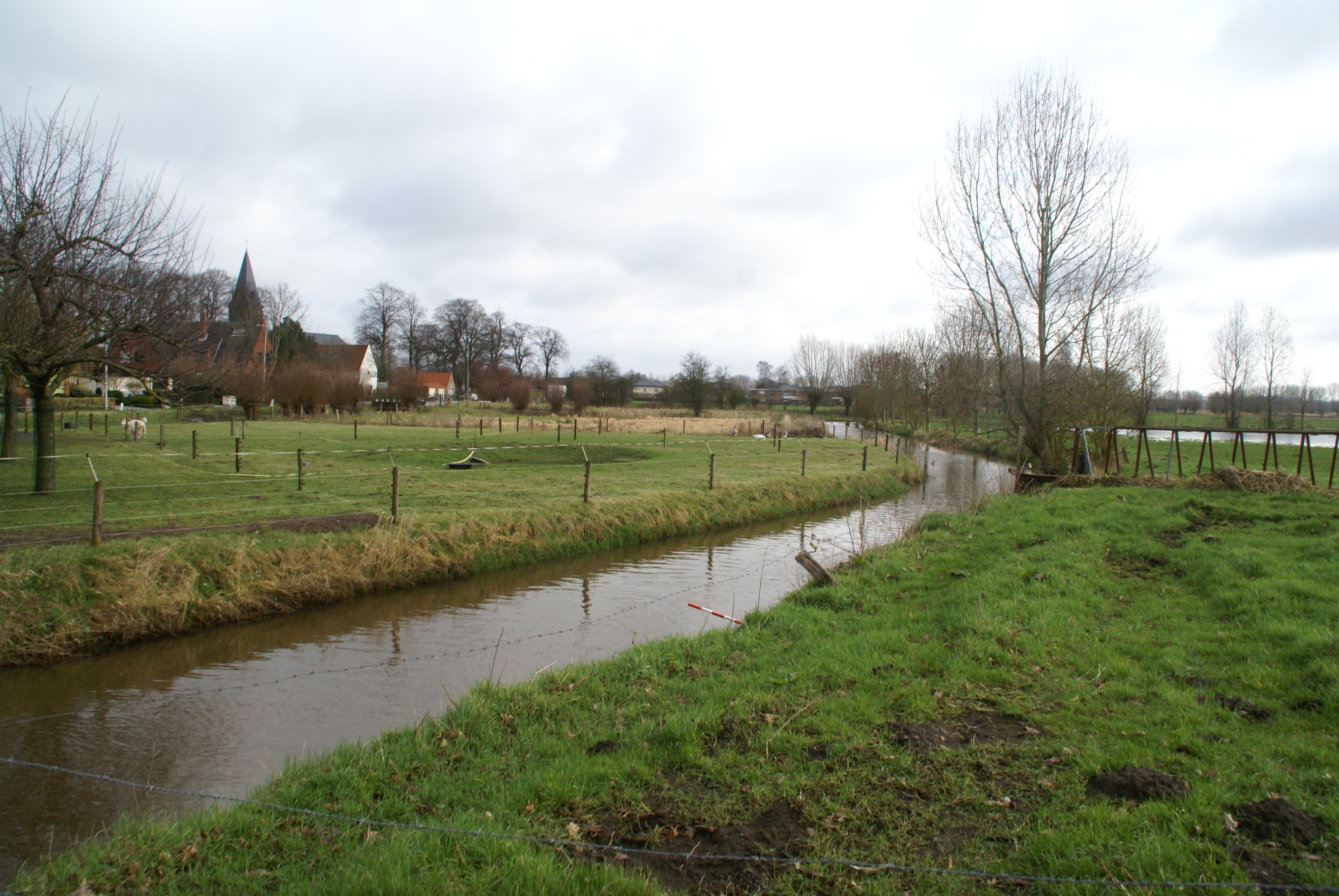 Bruges (Assebroek), Belgium: The river Sint-Trudoledeken at the marshlands of Assebroek